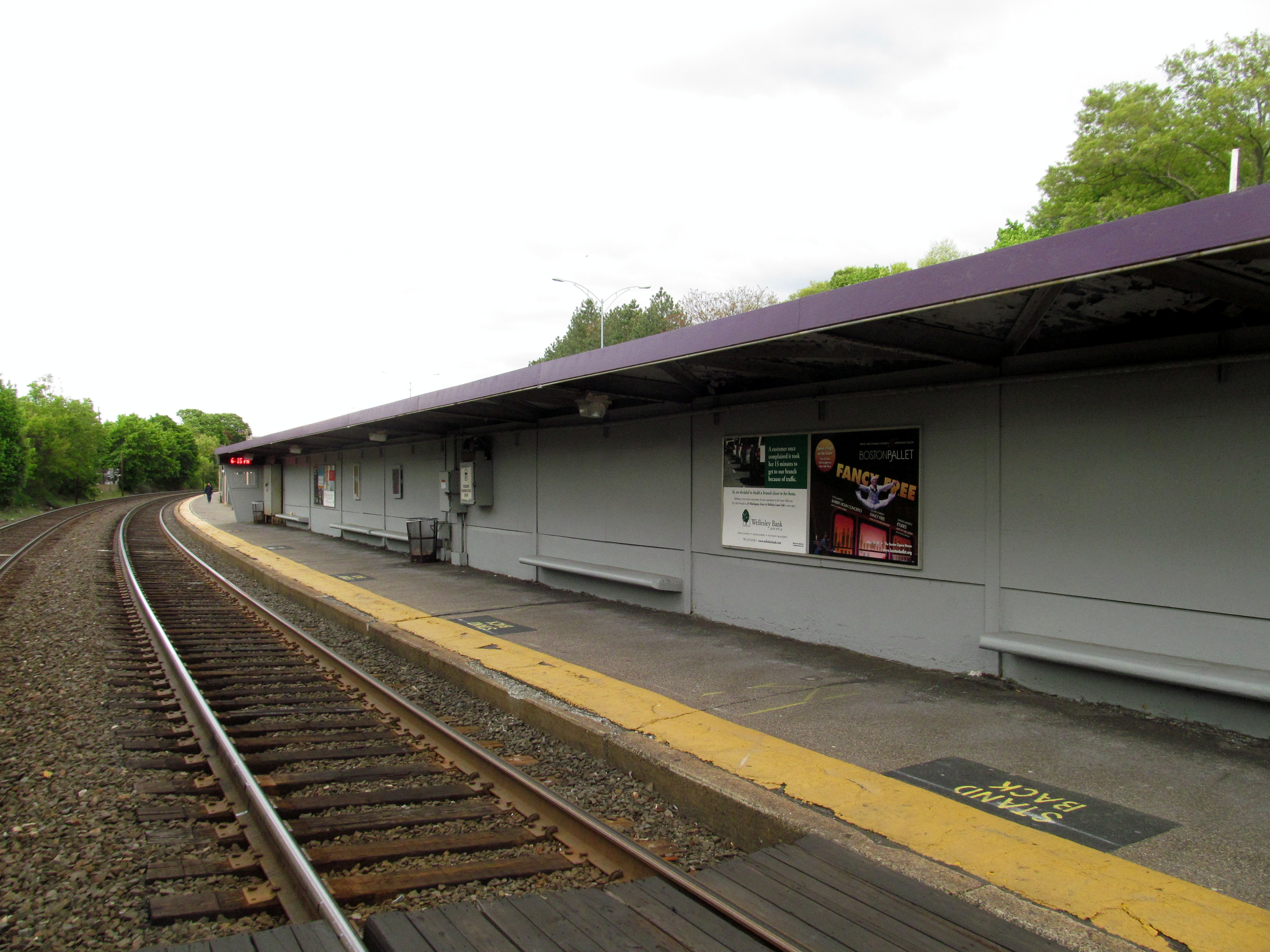 The station at Auburndale consists of a bare platform and a simple passenger shelter. This view looks at the shelter from the pedestrian crossing in the middle of the line's two tracks.